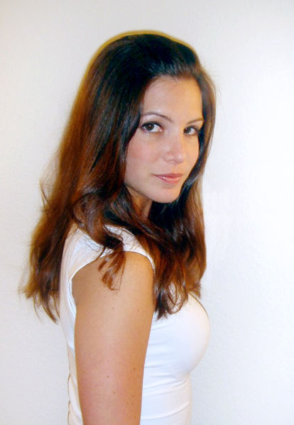 Julia Allison headshot